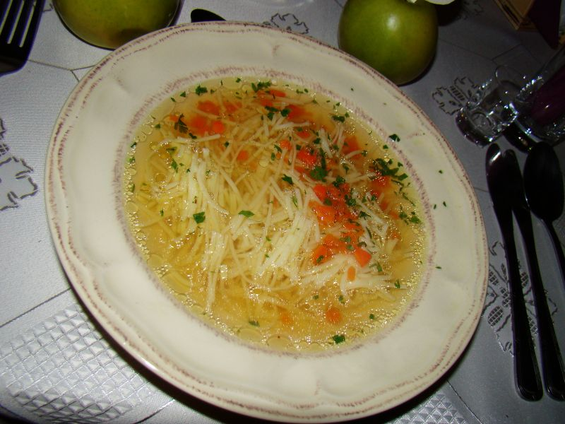 Cuisine of Sanok